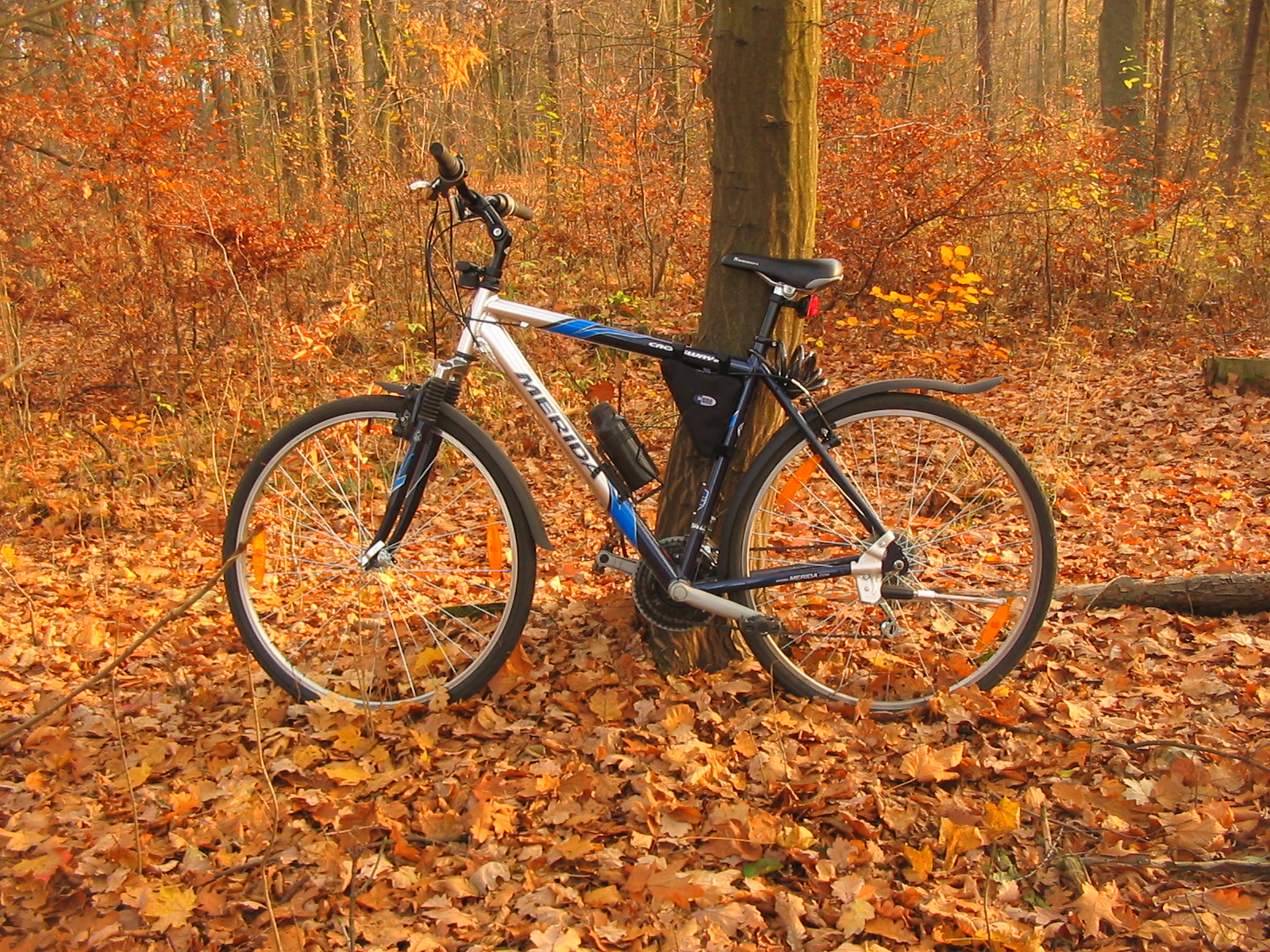 a Merida Crossway bike from 2005